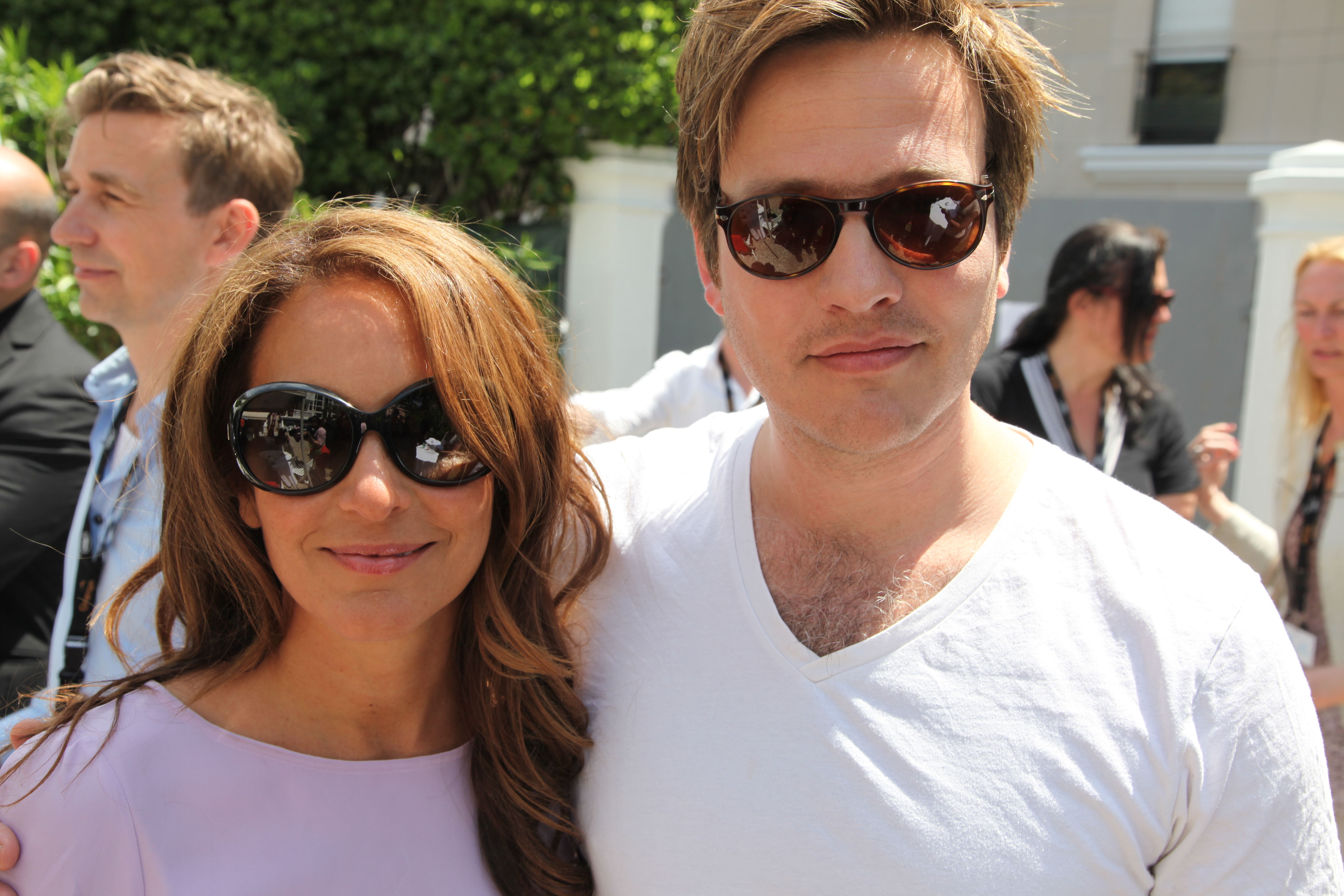 Alexandra Rapaport and Thomas Vinterberg presented The Hunt at Film i Väst's press lunch in Cannes.